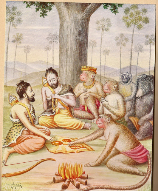 With Rama's assistance Sugreeva was able to challenge Vali in combat. Finally, the arrow shot from a distance by Rama killed the powerful warrior monkey, Vali. It is said that Rama could not identify who was Vali and Sugreeva! The artist has shown a garland around Sugreeva's shoulder that Rama might have used to distinguish who is his friend and who was Vali.